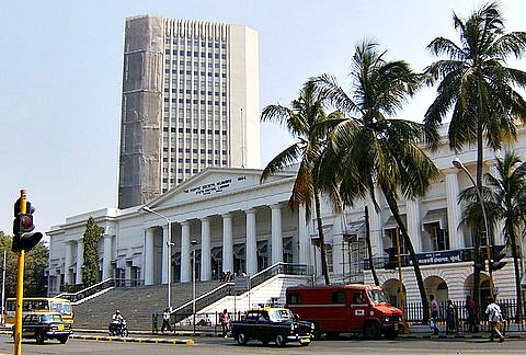 ಕೋಟೆ ಪ್ರದೇಶದಲ್ಲಿರುವ ಏಶಿಯಾಟಿಕ್ ಲೈಬ್ರೆರಿ.